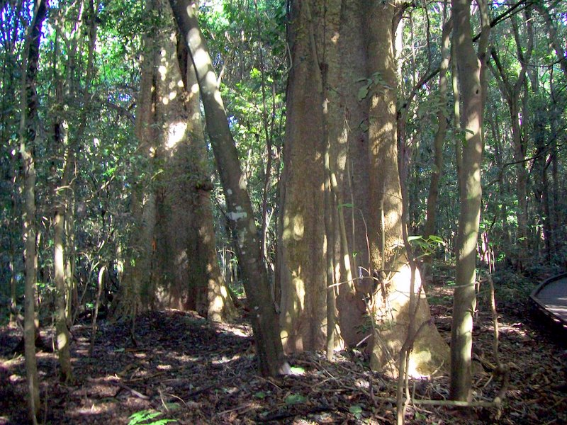 Giant Stinging Trees - Wingham Brush Dendrocnide excelsa